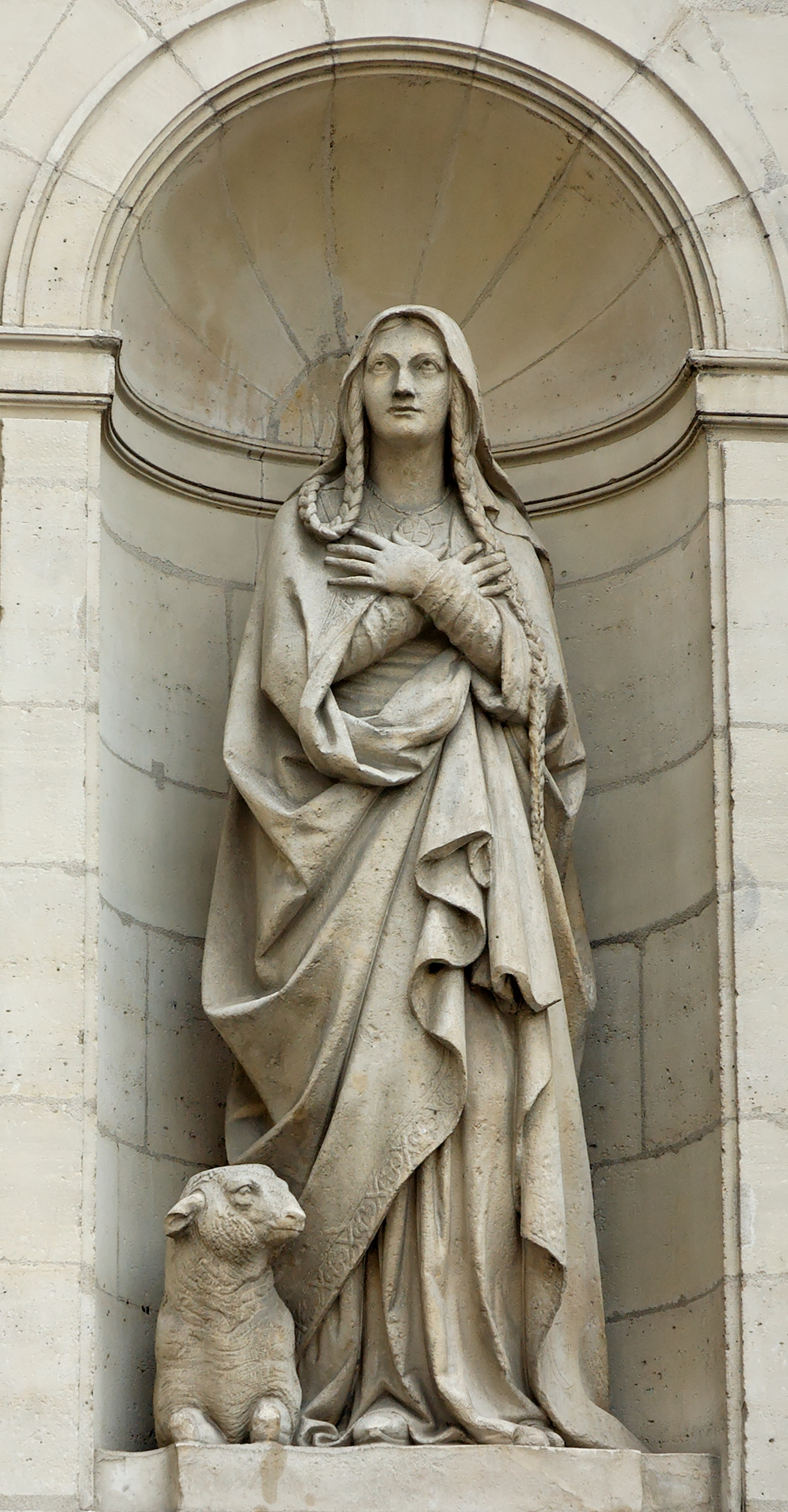 Statue of St. Genevieve by Pierre Hébert (French, 1804–1869). Façade of the 17th-century church Saint-Étienne-du-Mont ("St. Stephen in the Mount") in Paris.